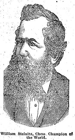 William Steinitz, world chess champion, 1886